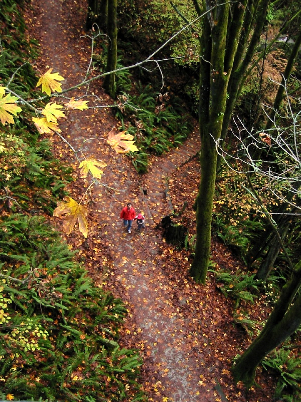 Ravenna Park (Seattle) Description: Father and child on trail on the south side of Ravenna Creek in Ravenna Park (Seattle) with Acer macrophyllum leaves and trees and sword fern. Viewpoint location: South end of the 20th Avenue NE Bridge. Lat/Long: 47.6716°N, 122.3064°W (WGS84/NAD83) USGS Seattle North Quad [1] Viewpoint elevation: 55 m View direction: West Date and time: 2005.11.07 13:10:49 PDT Camera: Canon PowerShot S110 Photographer: Walter Siegmund ©2005 Walter Siegmund